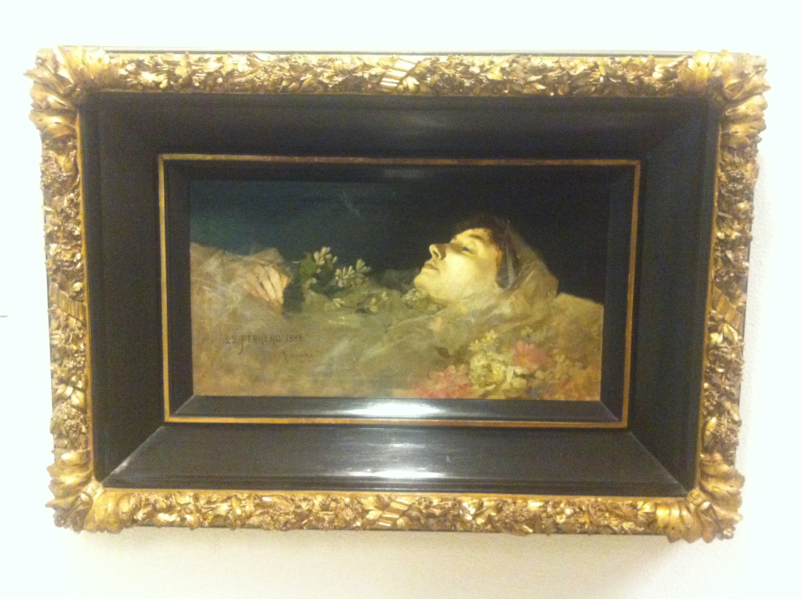 Paintings exhibited at La Mirada persistent exhibit in Figueres